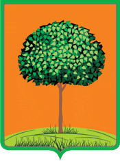 Lipetsk (Lipetsk oblast), coat of arms